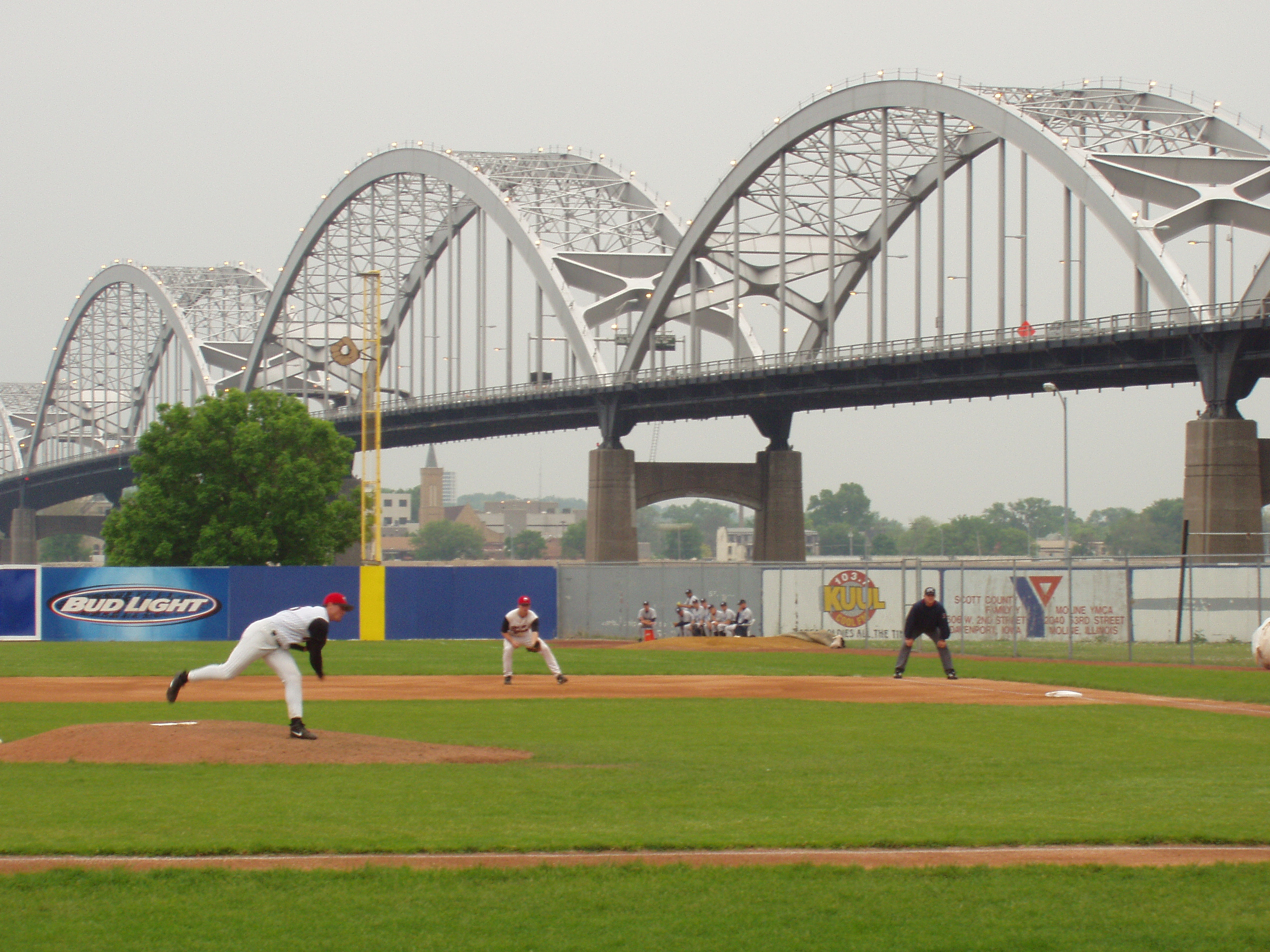 Joshua Hill pitching against West Michigan @ Quad City 19-05-2003